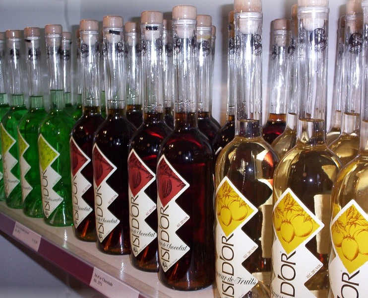 Longnecked bottles filled with Isi d'Or liqueurs.